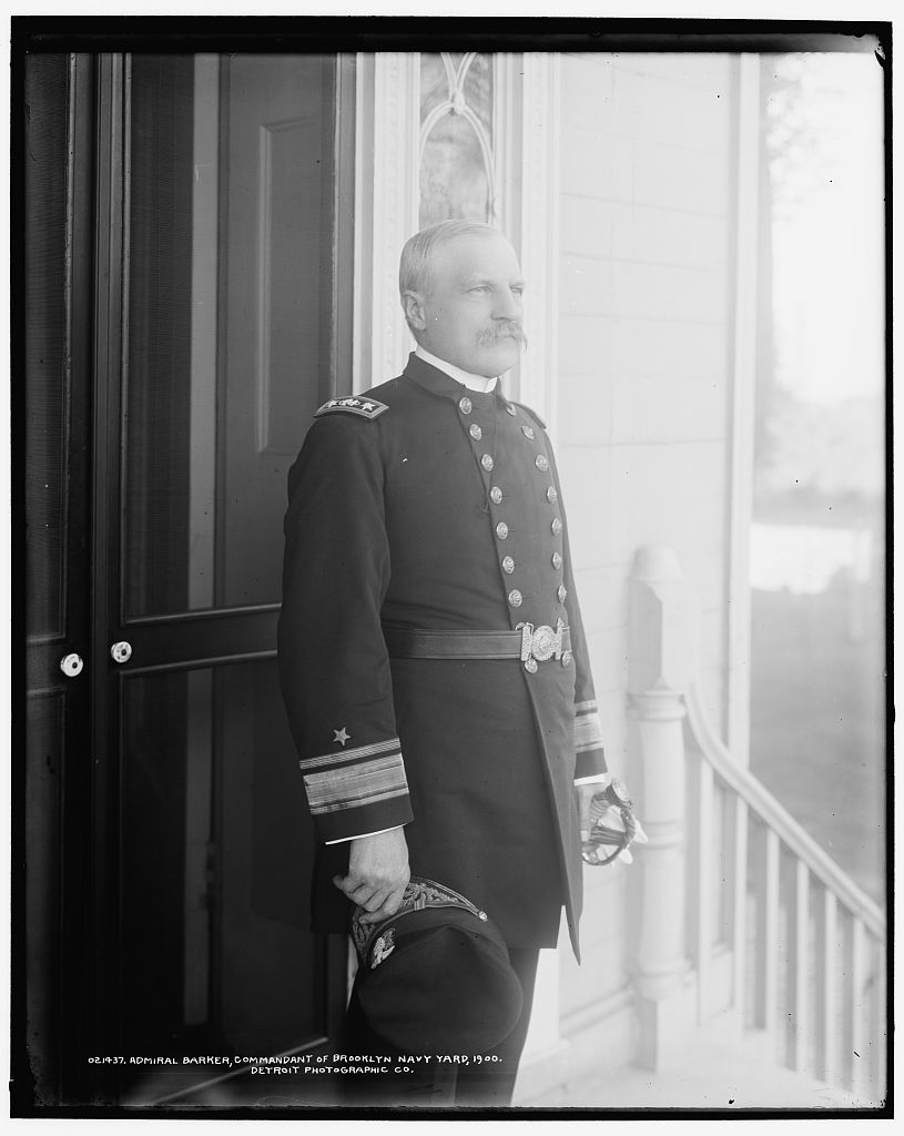 Admiral Barker, Commandant of Brooklyn Navy Yard